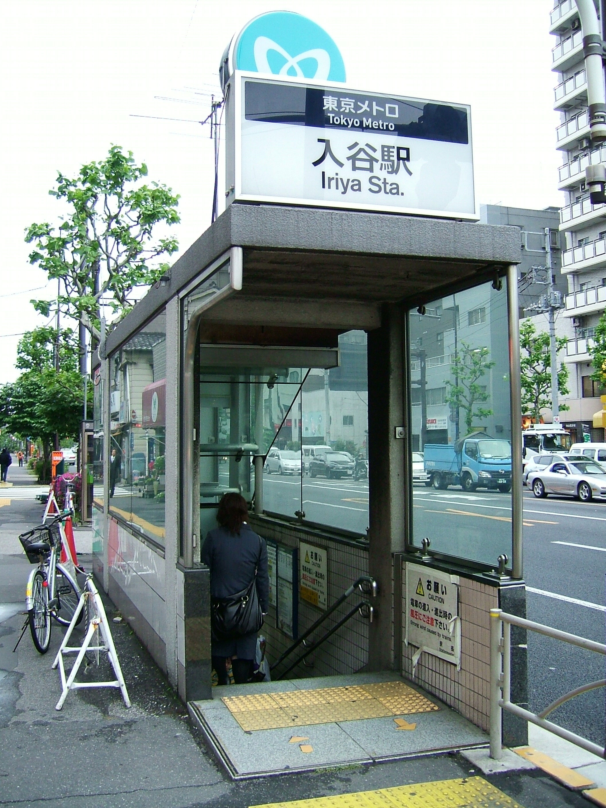 Iriya Station no.2 entrance (Tokyo Metro Hibiya Line)